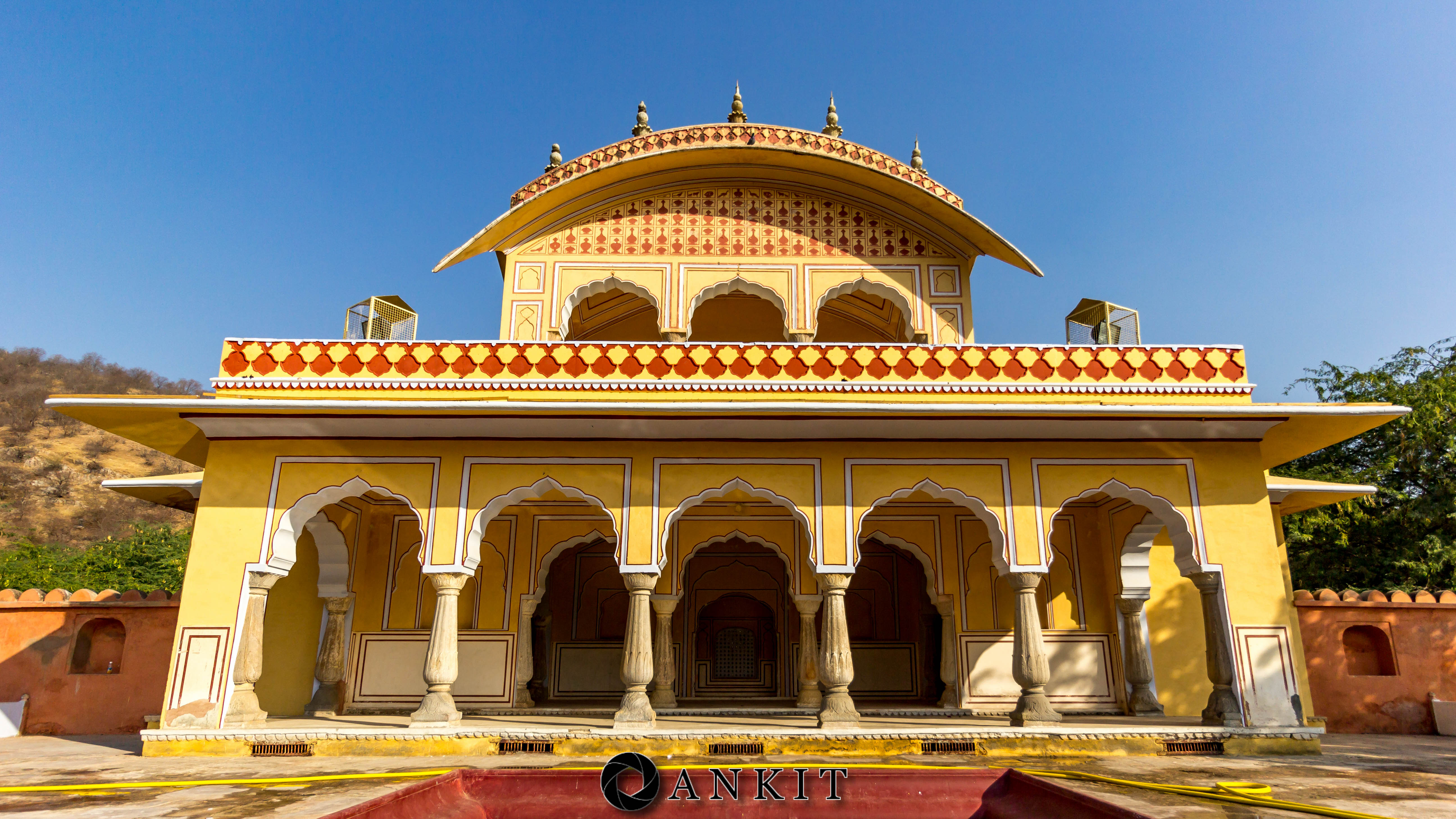 View inside Kanak Vrindavan Park